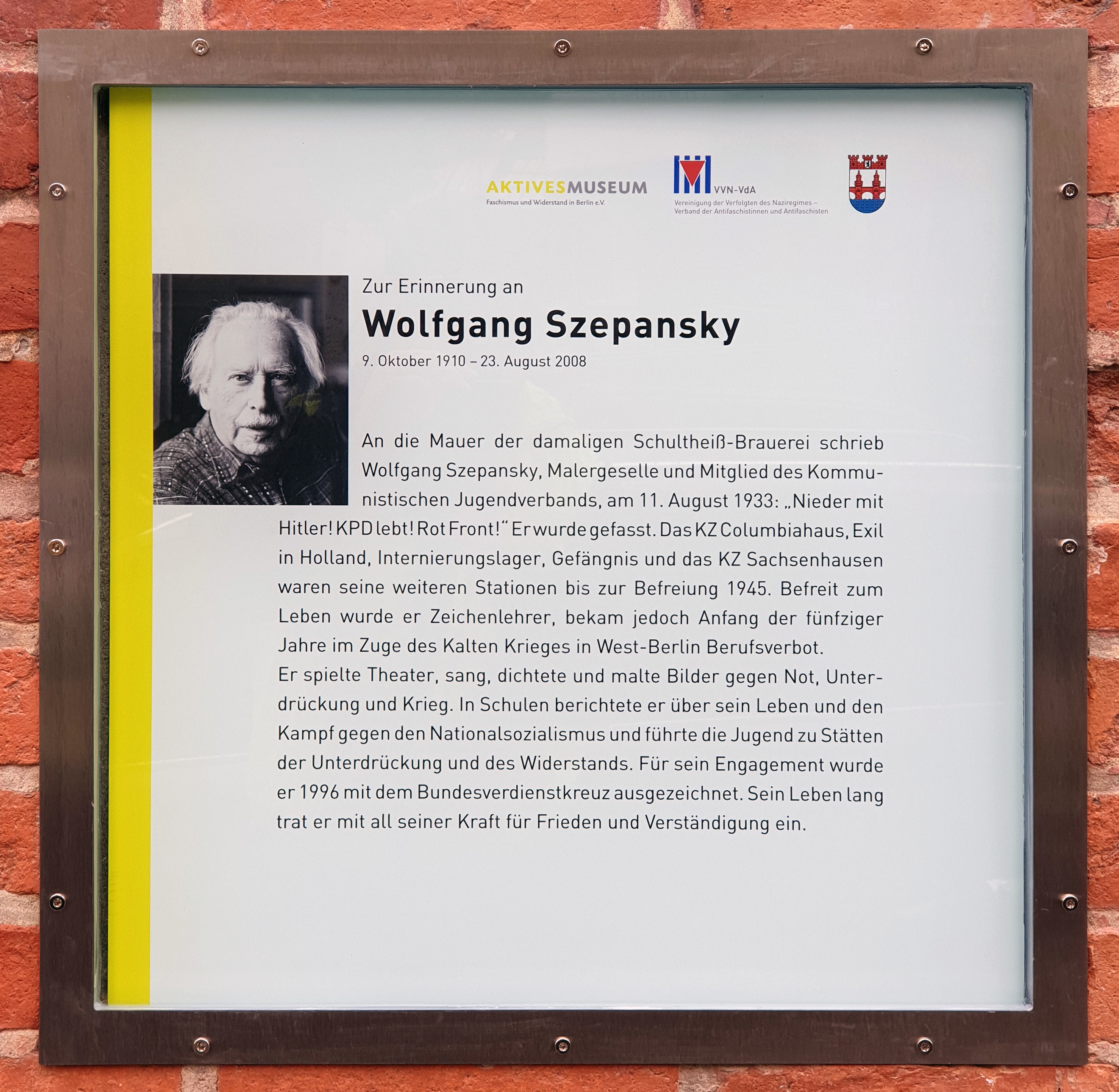 Memorial plaque, Wolfgang Szepansky, Methfesselstraße 42, Berlin-Kreuzberg, Germany